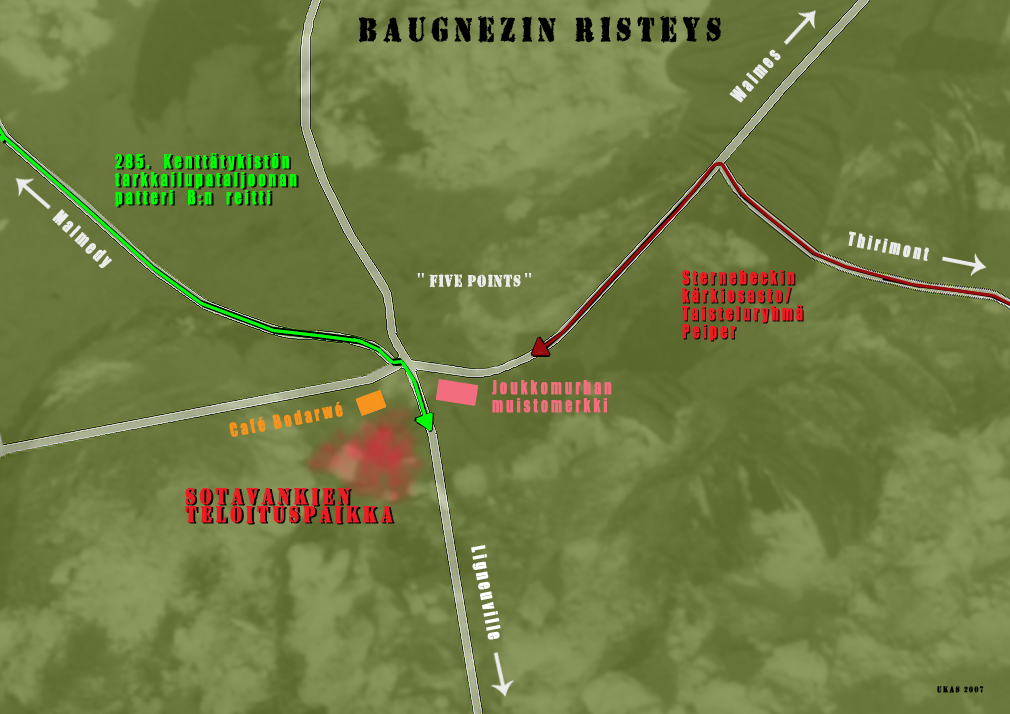 Drawing of unit routes at Baugnez Crossroads, where Malmedy Massacre took place. Unitnames etc. in Finnish. If you need one, ask, so I can deliver English version.